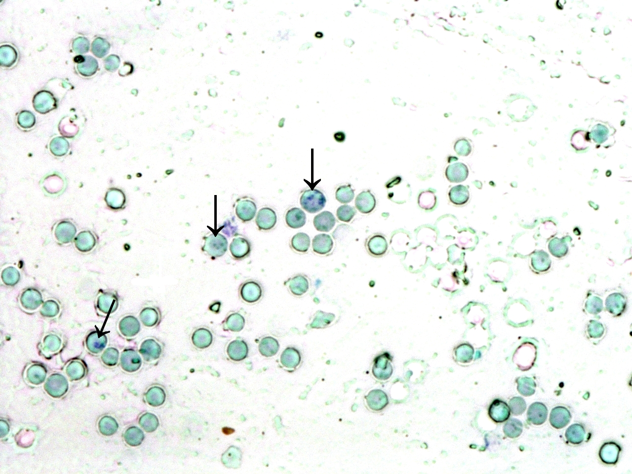 Reticulocytes, magnification 600x